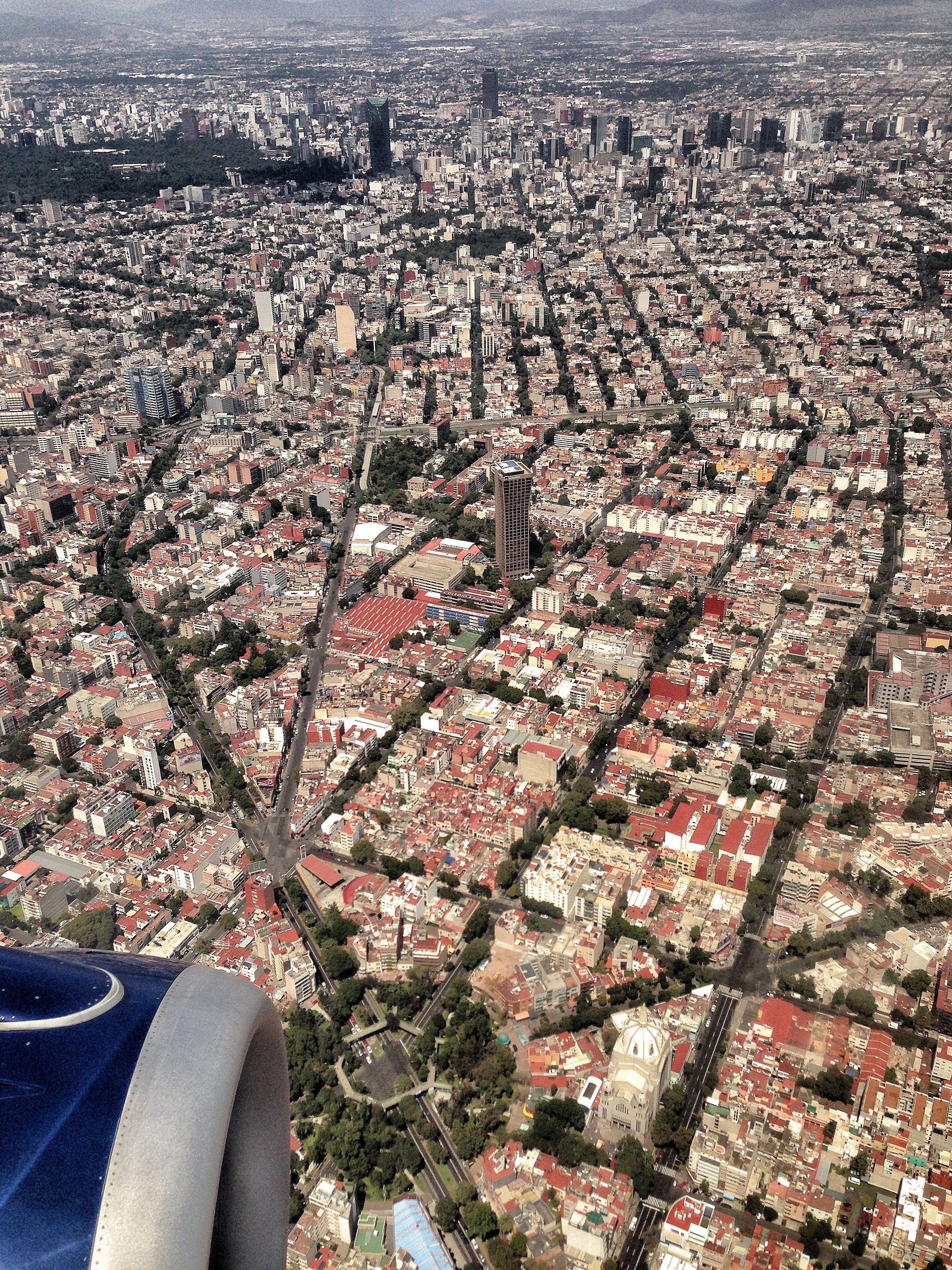 Aerial view of Colonia Del Valle (Foreground), in the background the Condesa and Roma areas, and the skyline of Paseo de la Reforma